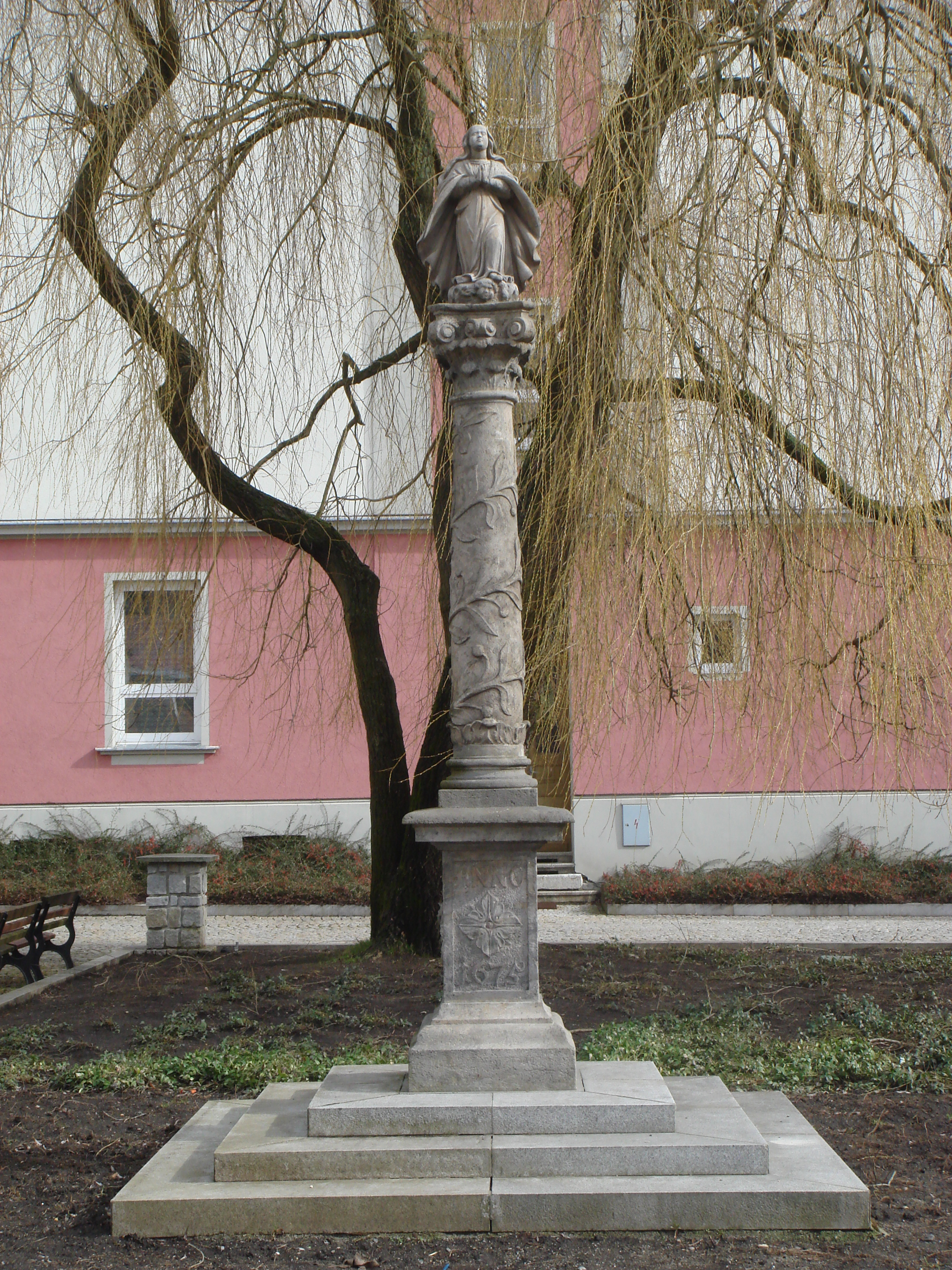 Marian column in Chodov (Karlovy Vary Region, Czech Republic).